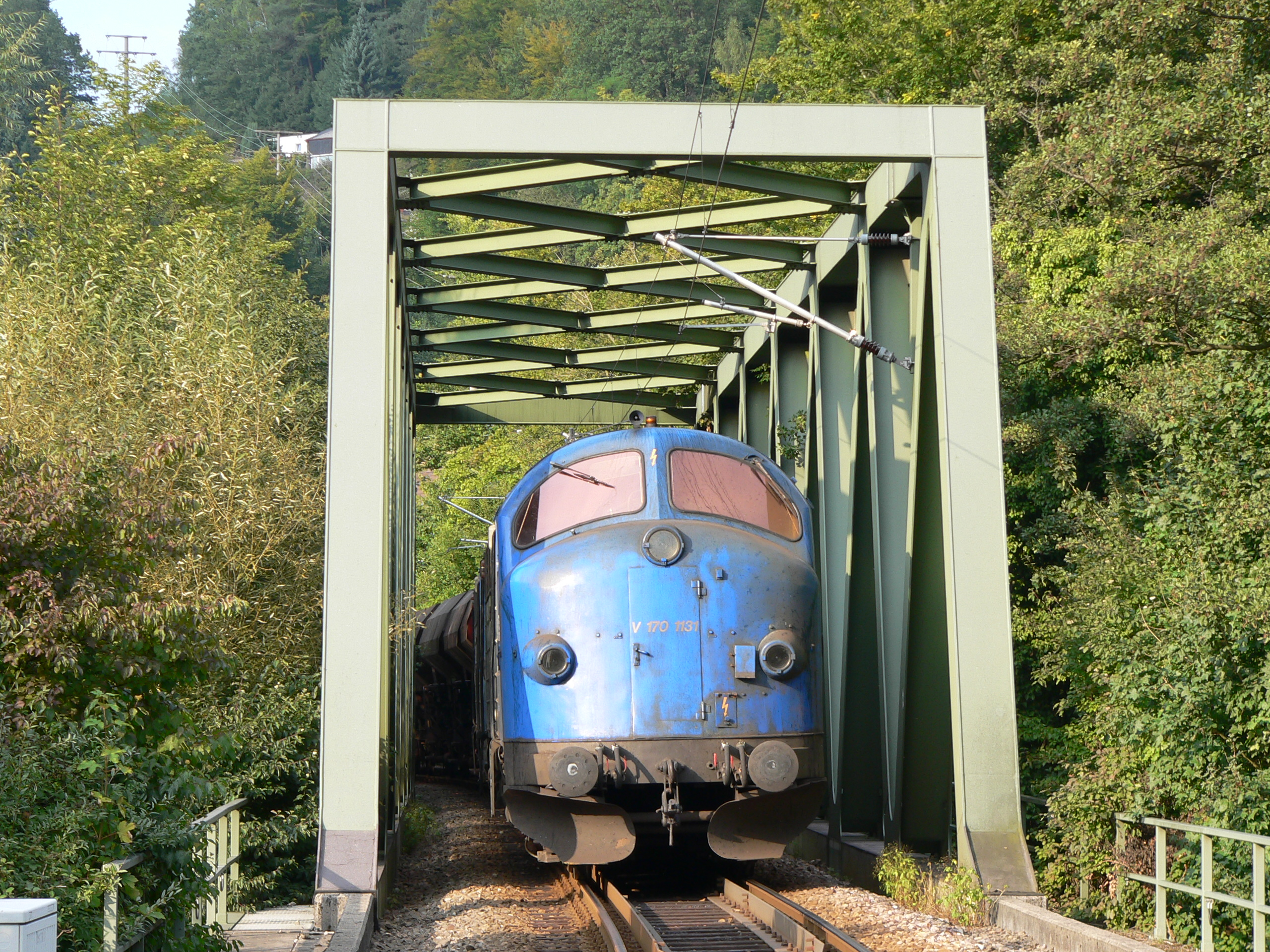 NOHAB MY Eichholz V170 1131; ex DSB MY 1131; Enztalbahn near Neuenbürg Germany